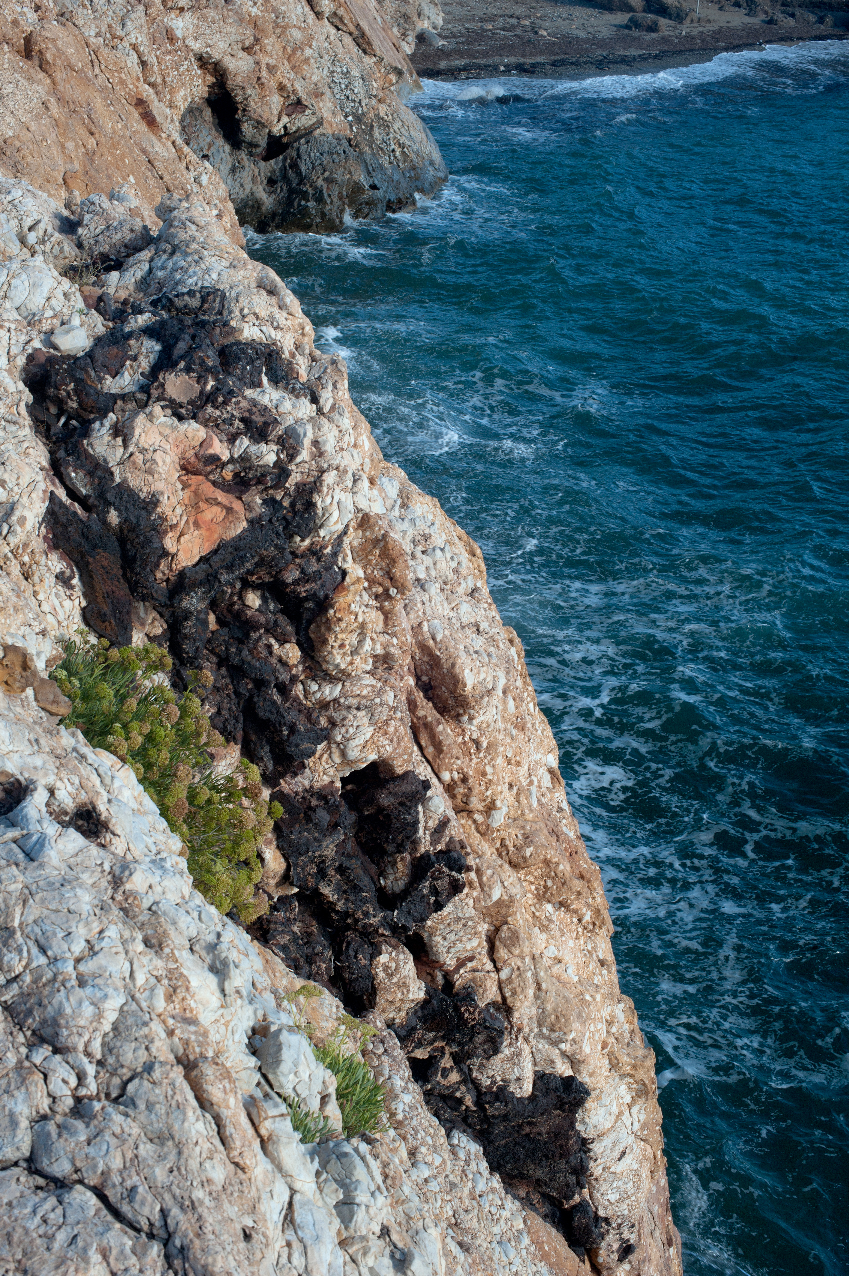 Iron ore veins and beds, Marmaritsa, Rhodope, Thrace, Greece.